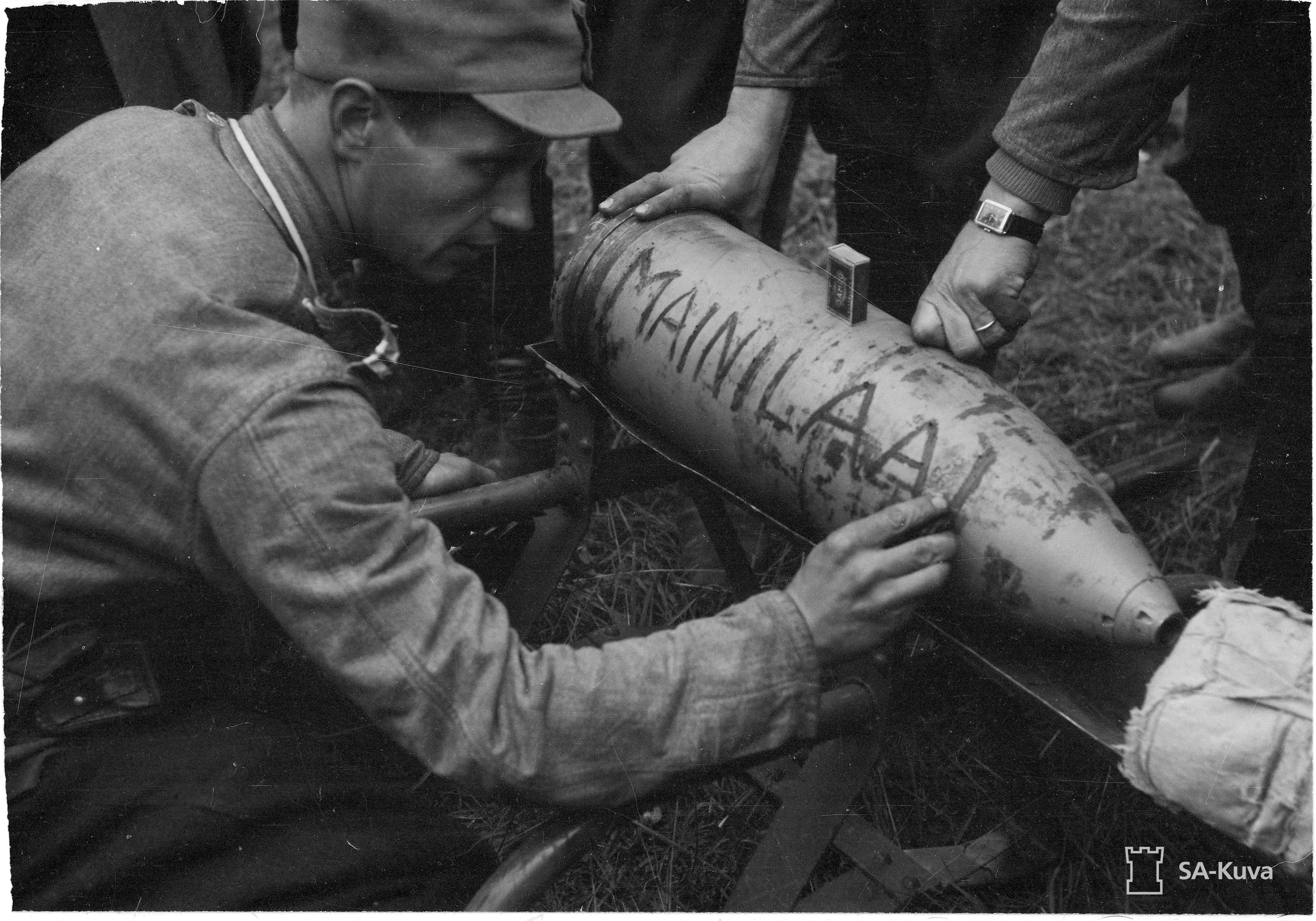 Soviets used the "Shelling of Mainila" on November 26 1939 as Casus Belli for Winter war, it was quickly proven that Soviets shelled the village themselves, on August 31 1941 when Finnish Army reached the 1939 border, 18th Division conducted the "Real Shelling of Mainila" with combat camera personnel present before taking the village.